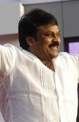 Cropped version of File:Chiranjeevi welcome01.jpg